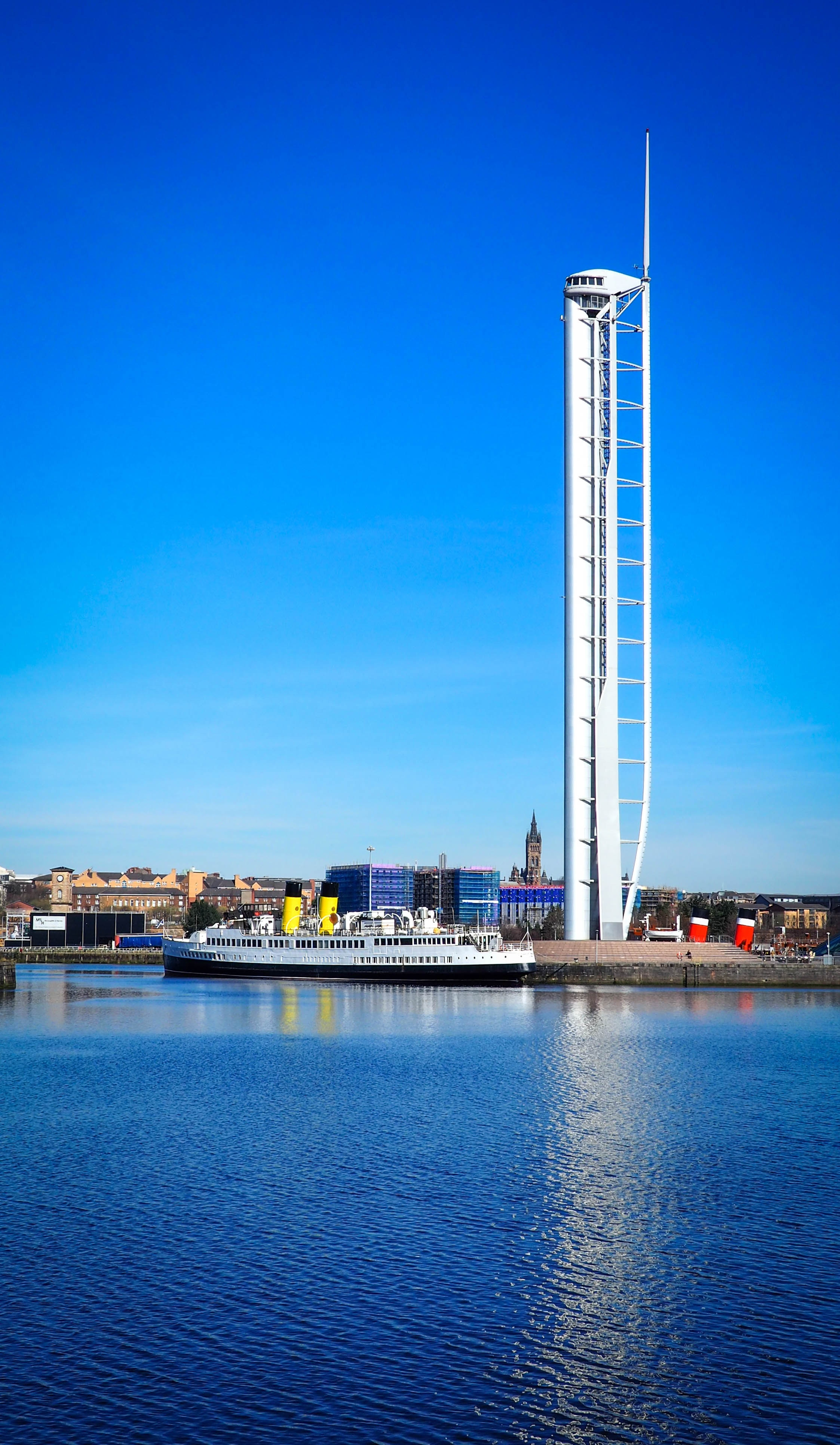 Glasgow tower taken from Queen's dock.